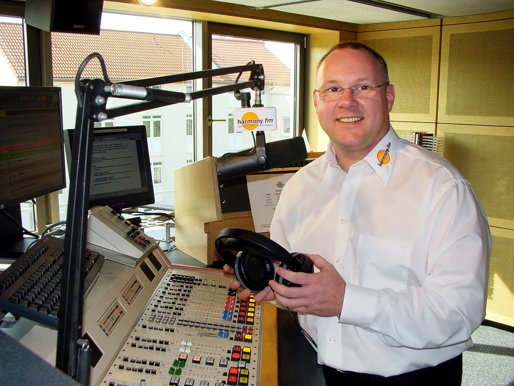 Andreas Karczewski, German Radiostation harmony.fm